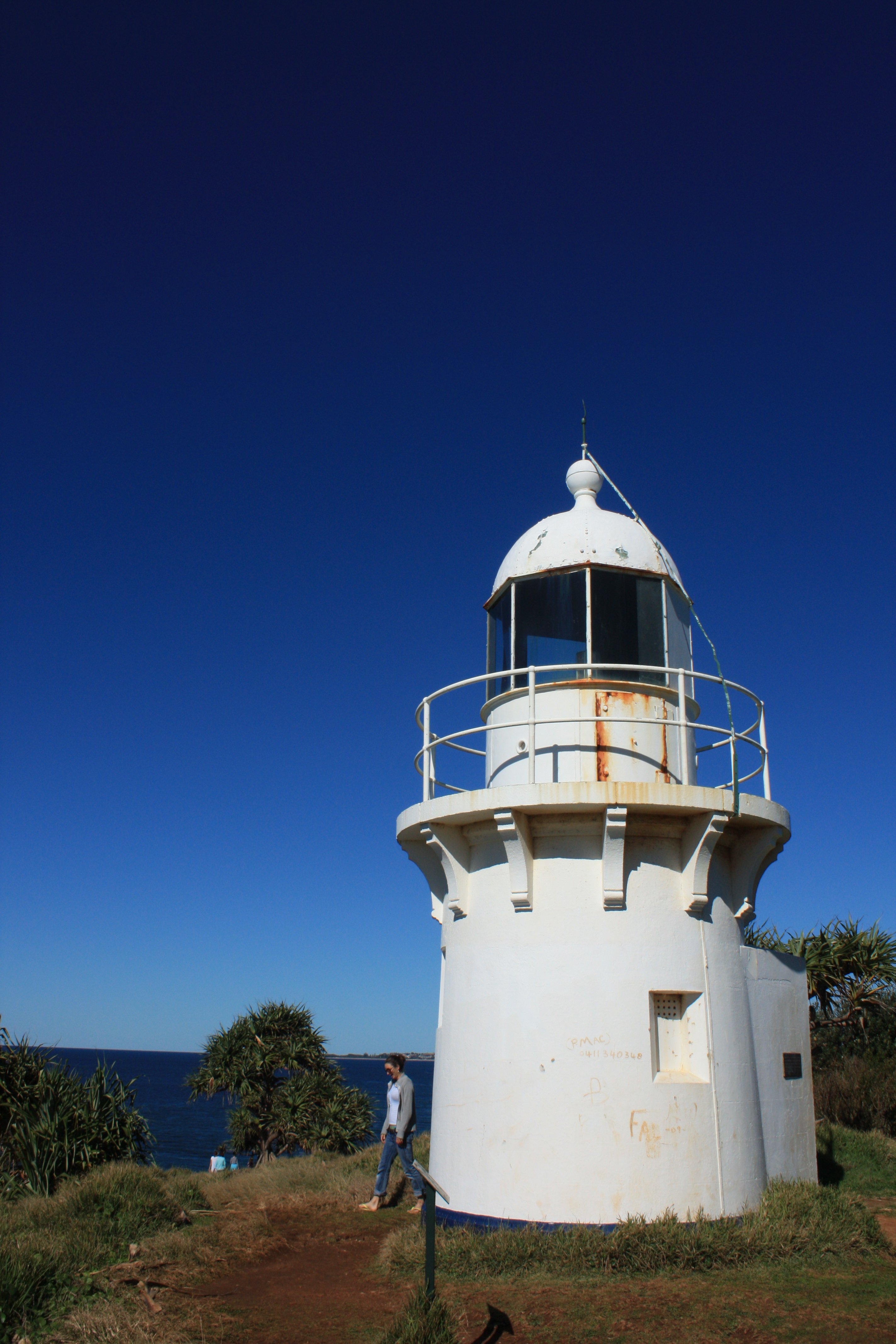 Fingal Heads Lighthouse, 2009